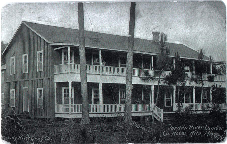 Jordan River Lumber Company Hotel in Kiln, MS